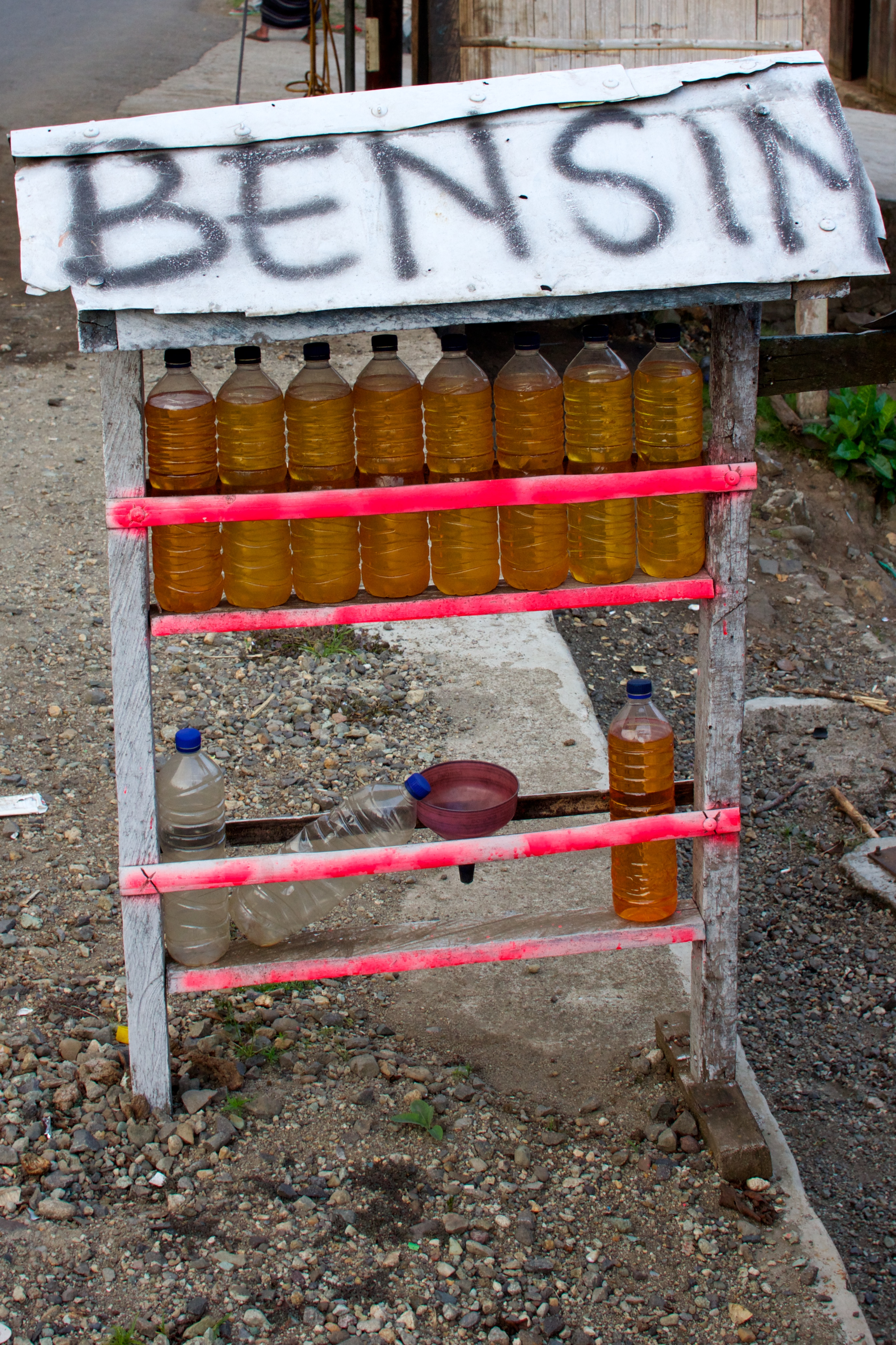 Petrol Station